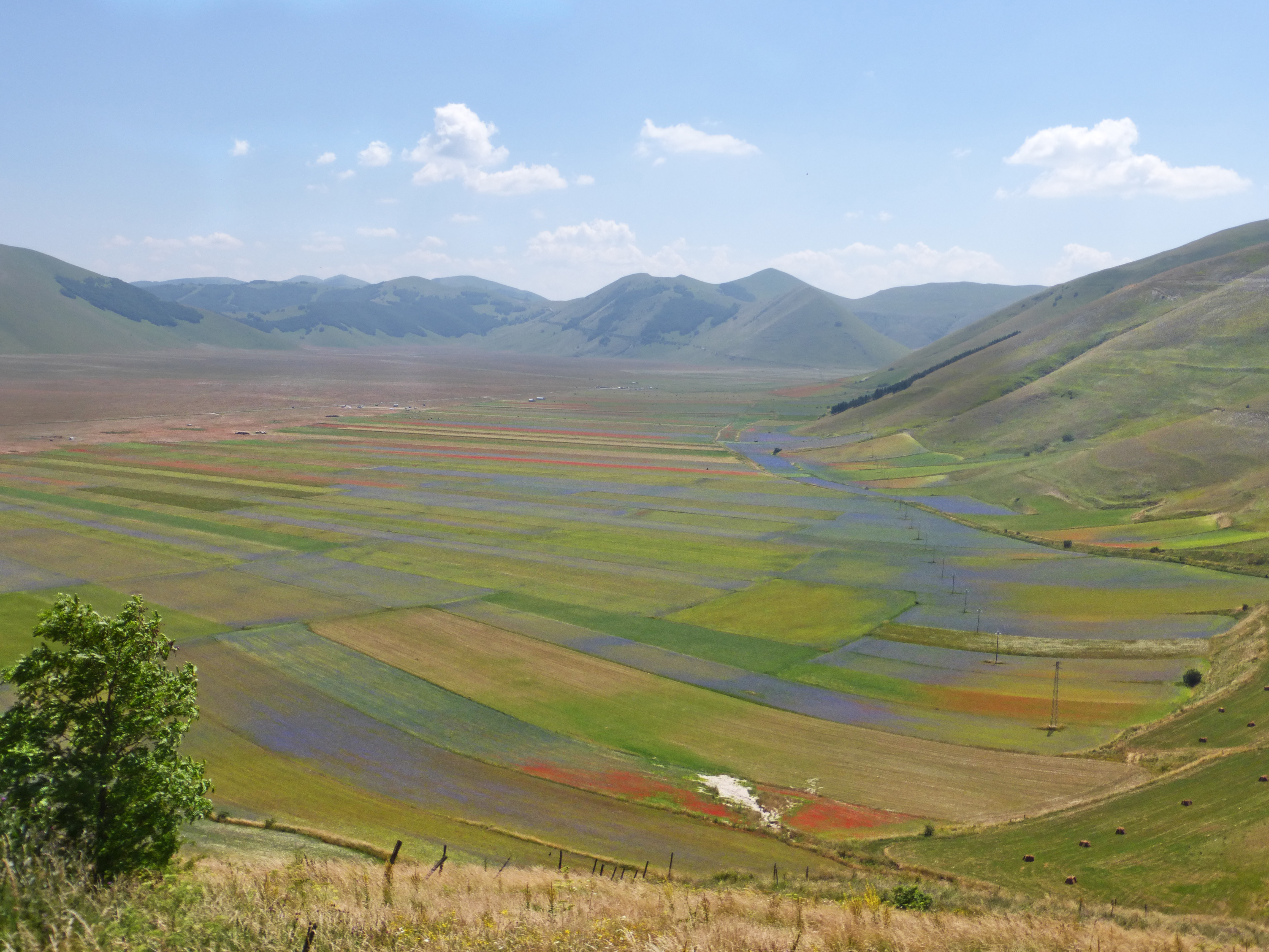 View from the road leading down from Castelluccio